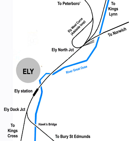 Shetch map of railway lines and junctions at Ely, Cambridgeshire, United Kingdom